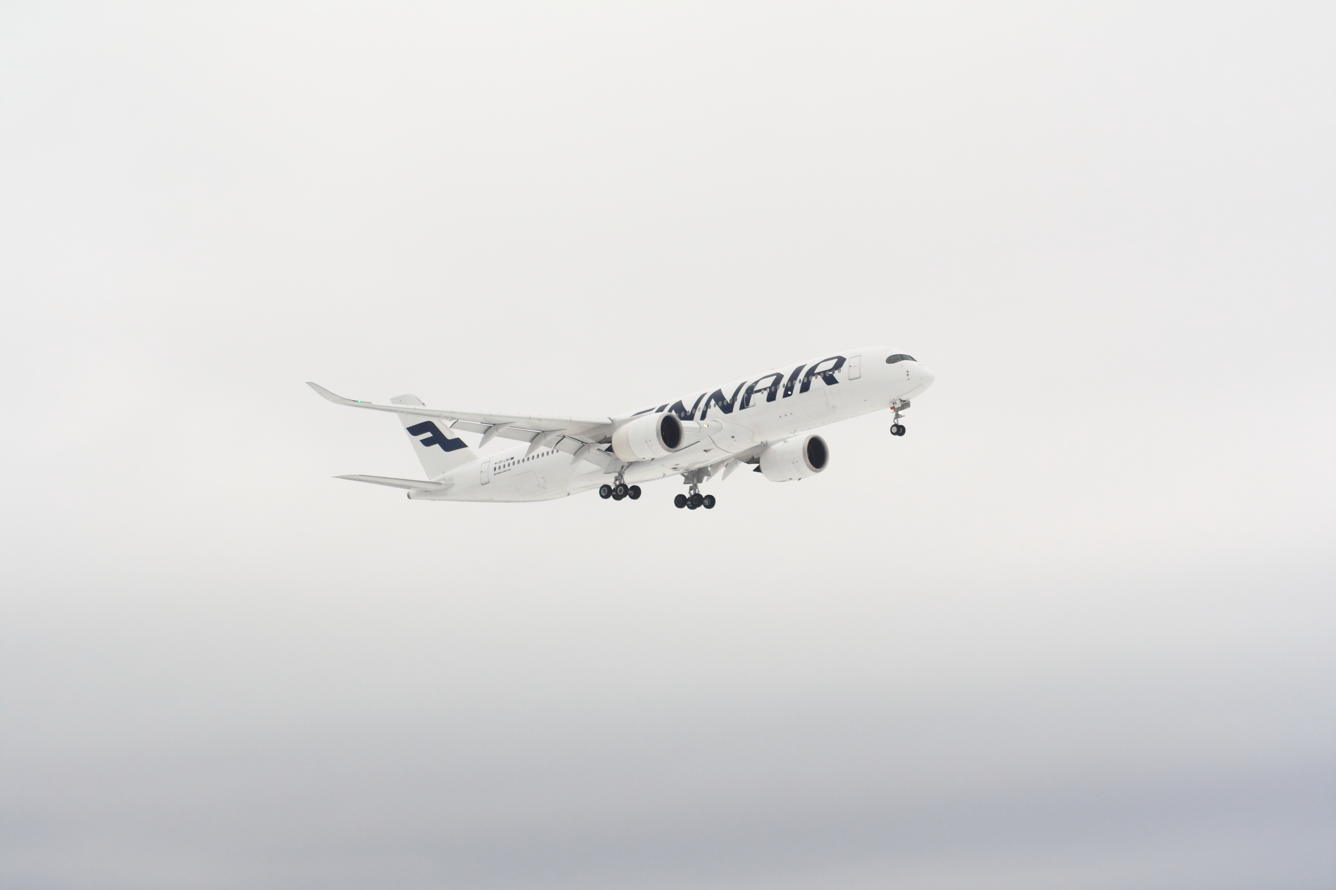 Finnair Airbus A350 OH-LWA flight AY58 (PVG-HEL) landing Helsinki-Vantaa Airport (HEL/EFHK) rwy 04R